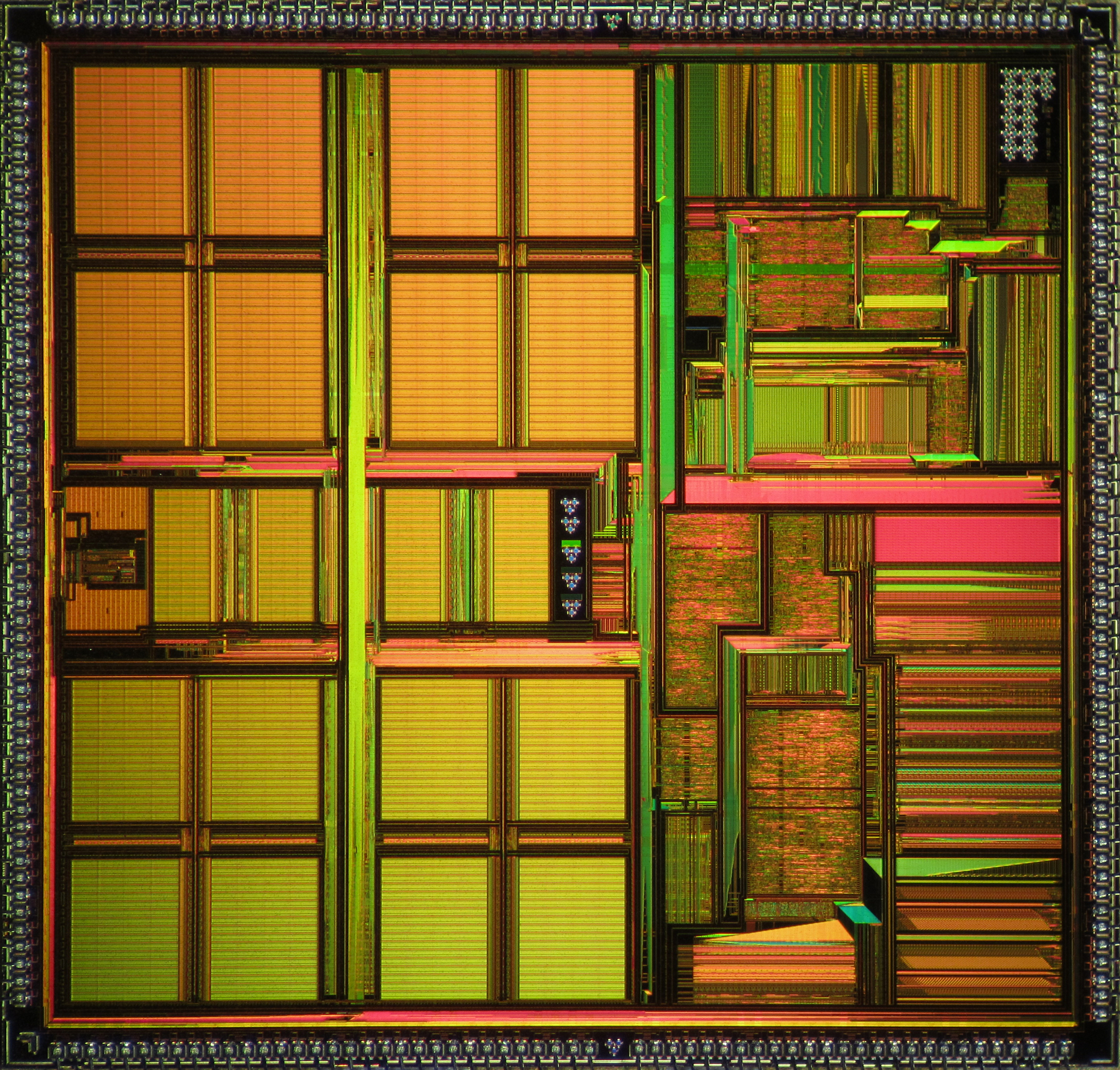 Die shot of NEC VR5000 MIPS microprocessor (D30500RJ-150).